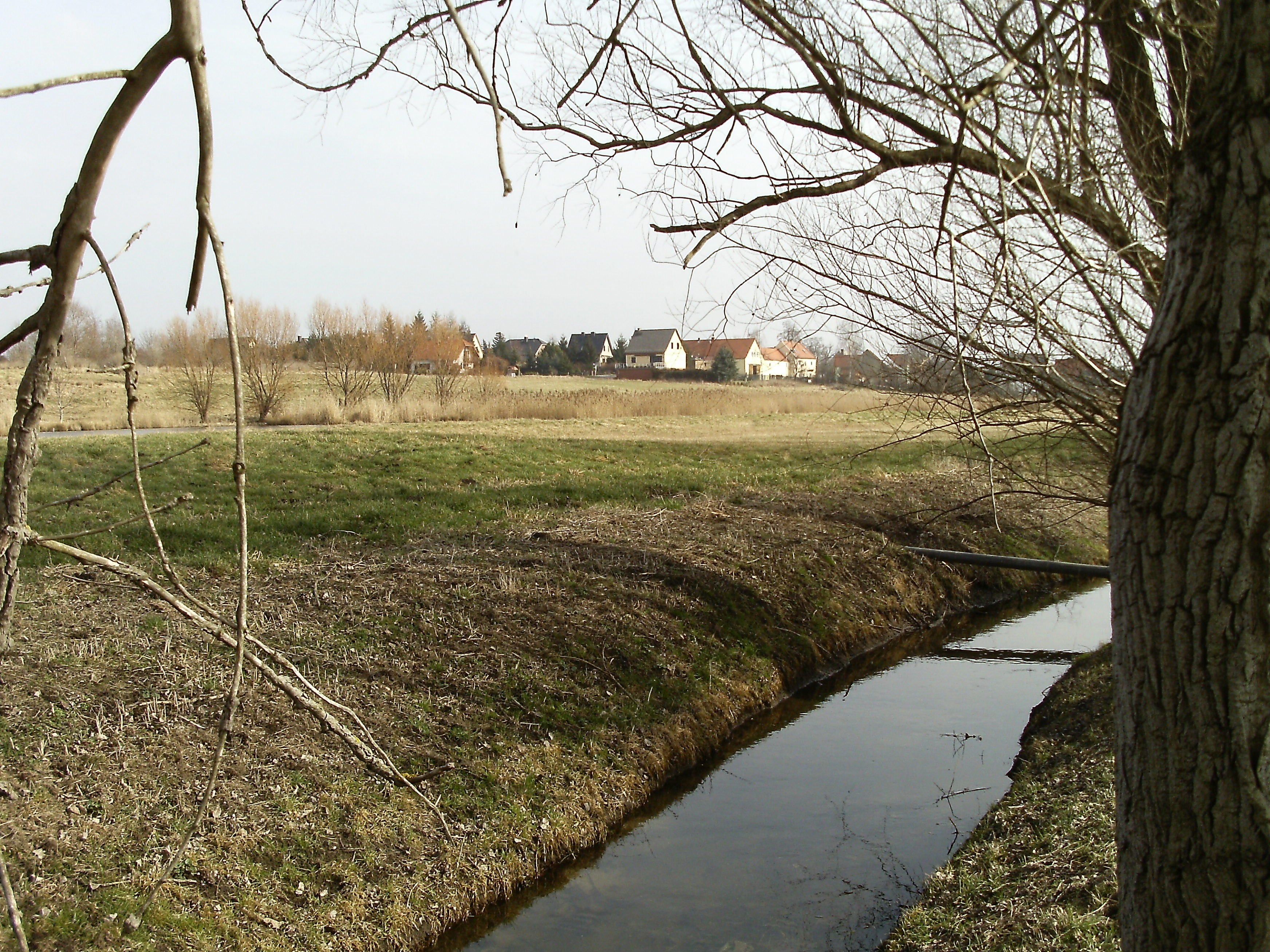 Ellerbach stream near Tollwitz (Bad Dürrenberg, district of Saalekreis, Saxony-Anhalt)